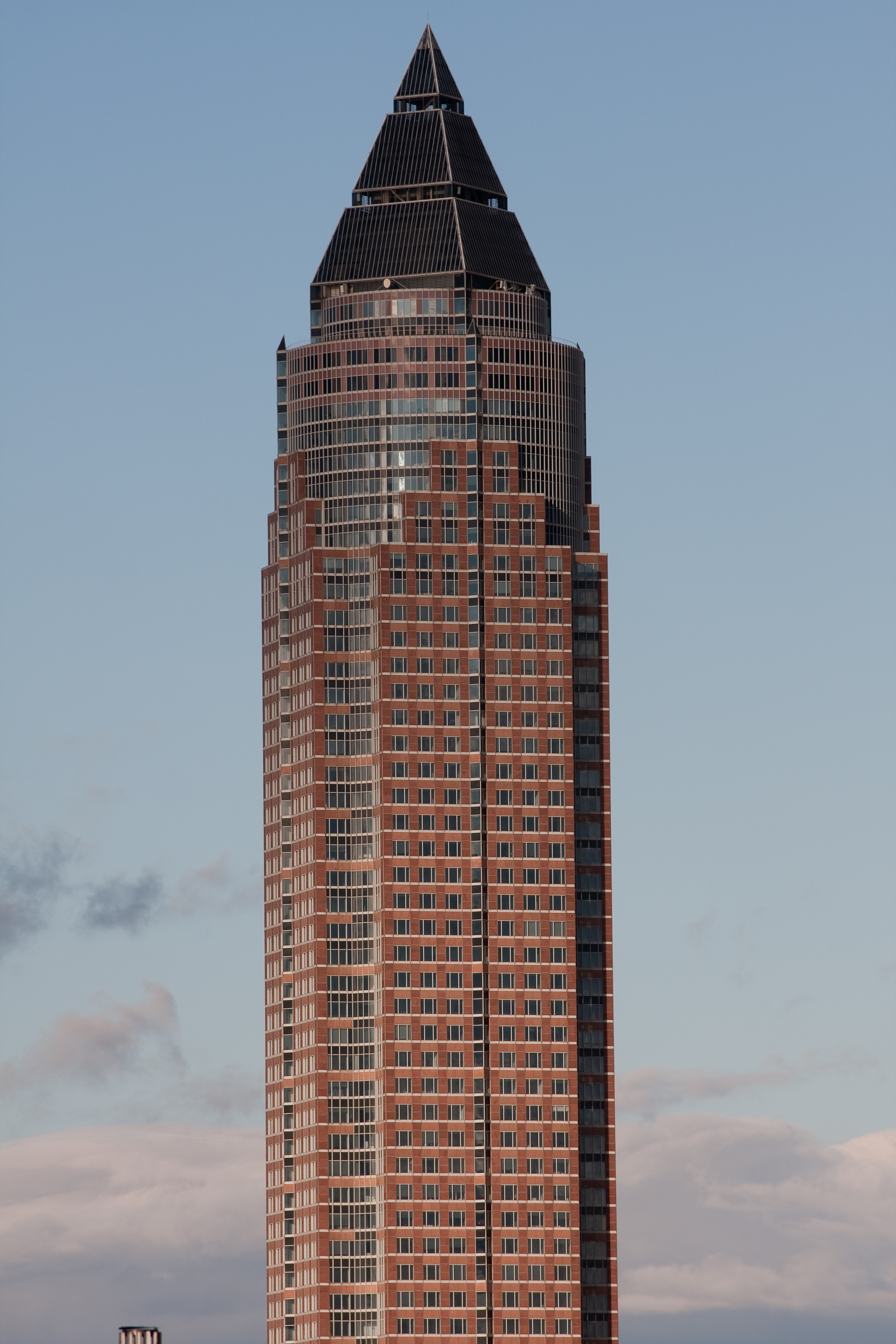 View of the Messeturm Frankfurt am Main germany